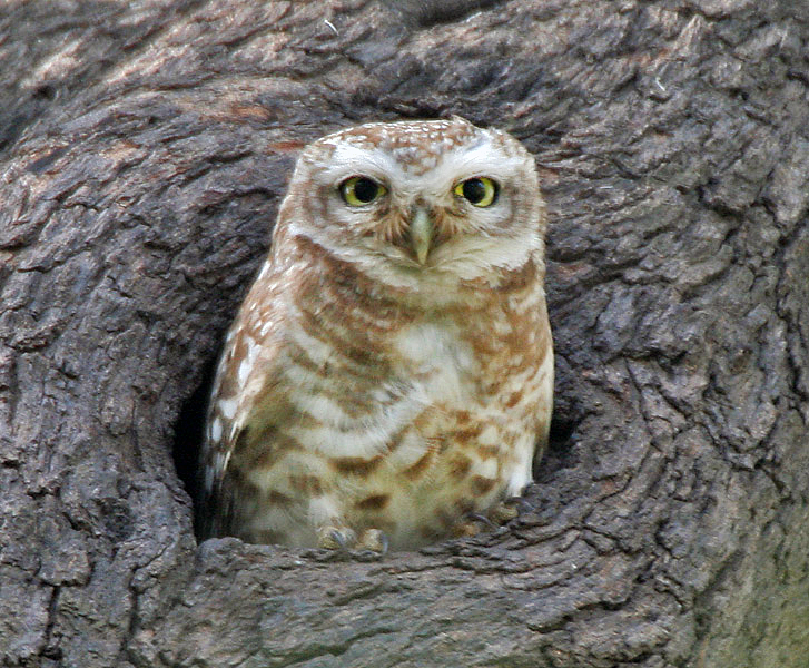 Spotted Owlet Athene brama at Keoladeo National Park, Bharatpur, Rajasthan, India.